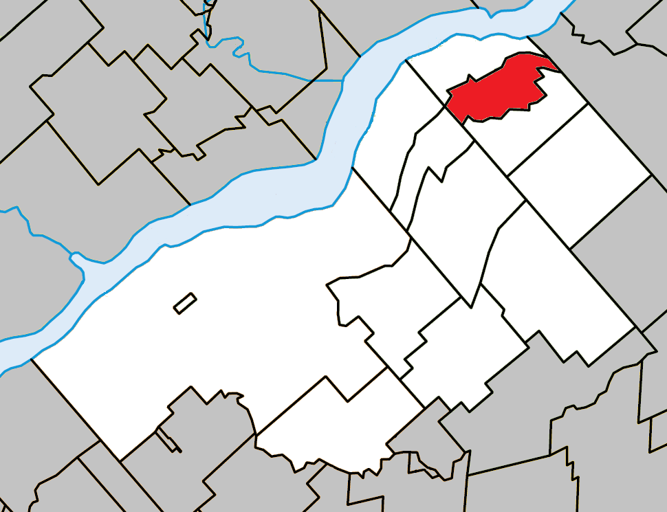 Location of Parisville, Quebec within Bécancour Regional County Municipality.